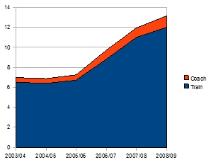 Vline total patronage